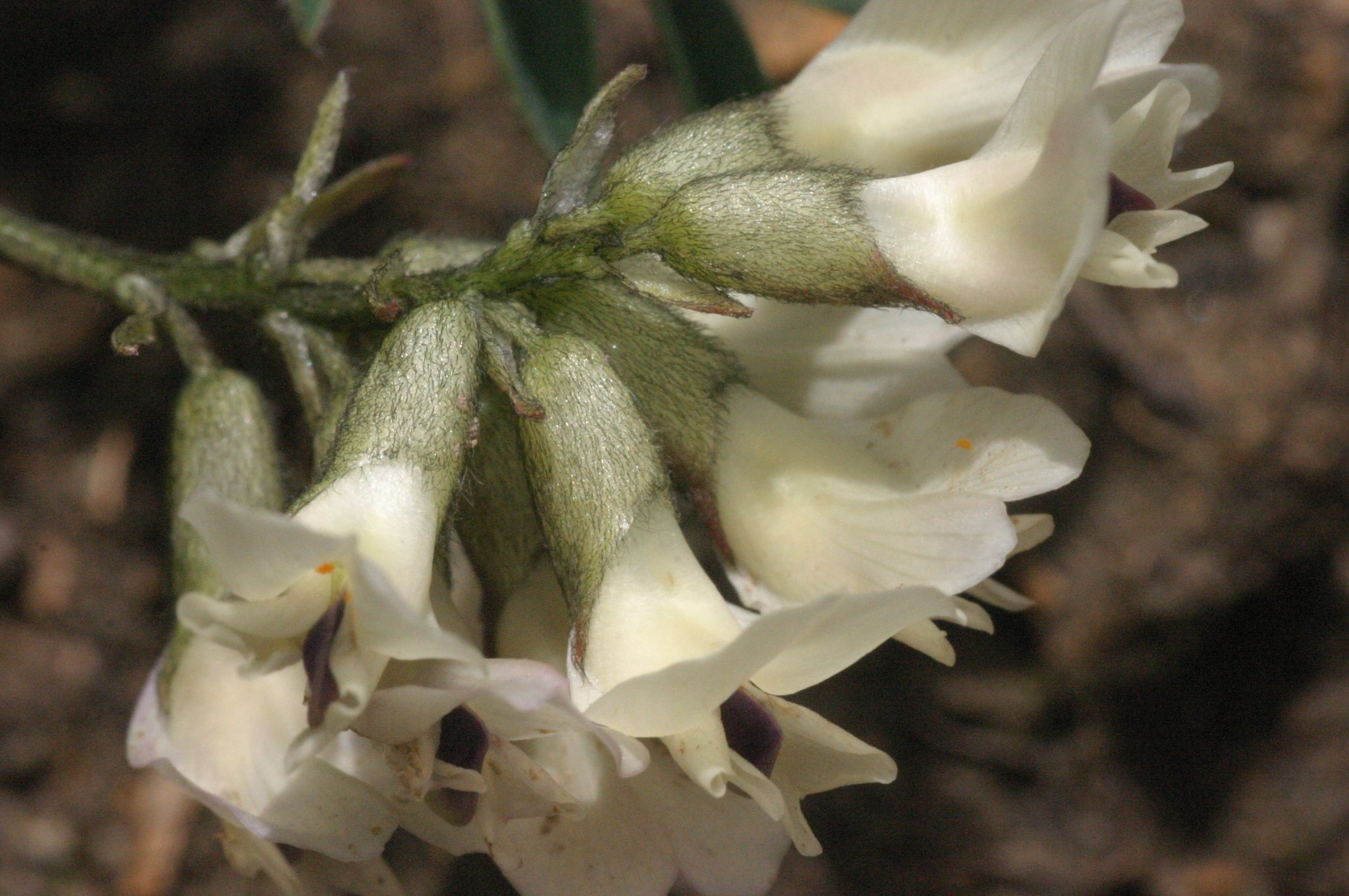 Astragalus australis